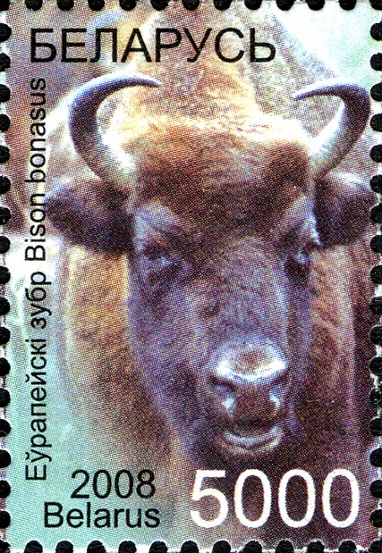 2008; Belarussian Post; 5000 Rub.; multicolored; representing Wisent - Bison bonasus; Eleventh Definitive issue, Wild Beasts; Designer - Ivan Lukin